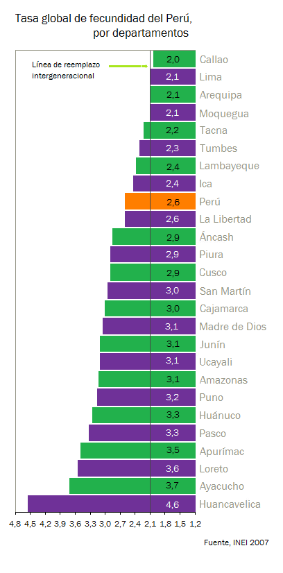 Total fertility rate of Peru